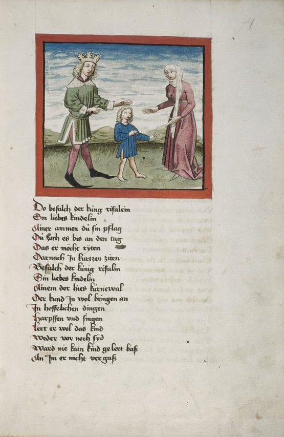 Cod. Pal. germ. 346. Eilhart von Oberg: Tristrant. (Ober?)Schwaben, 1465.